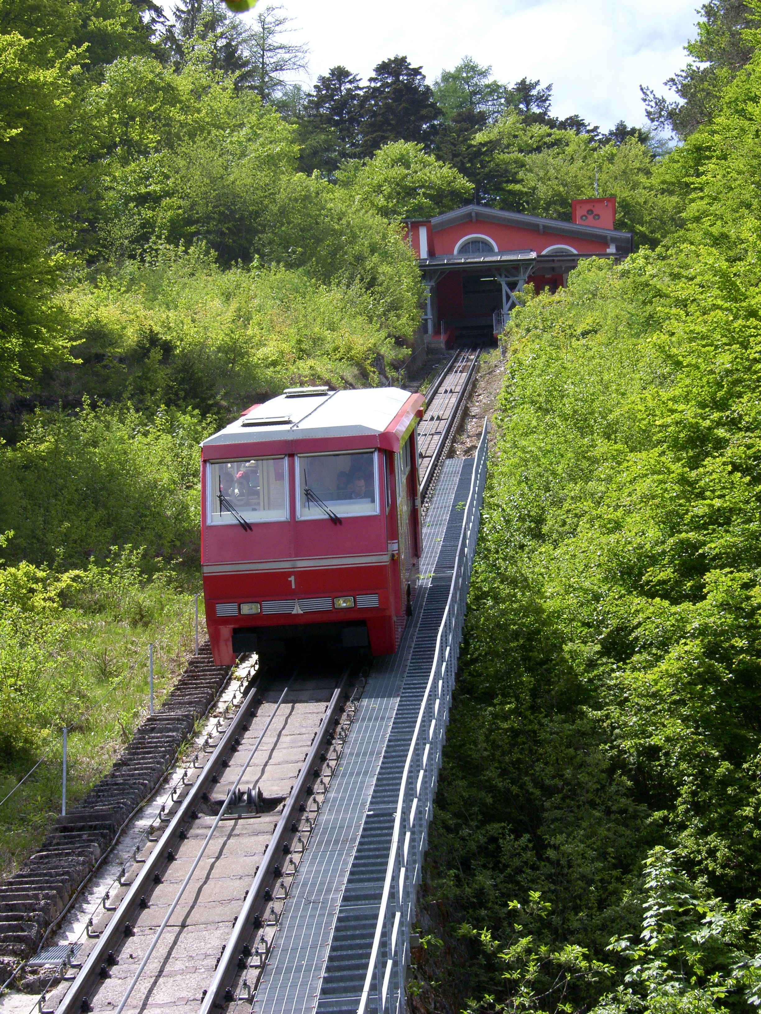 Funicular Mendola, departure from top station down to Kaltern (it: Caldaro), old train before 2009